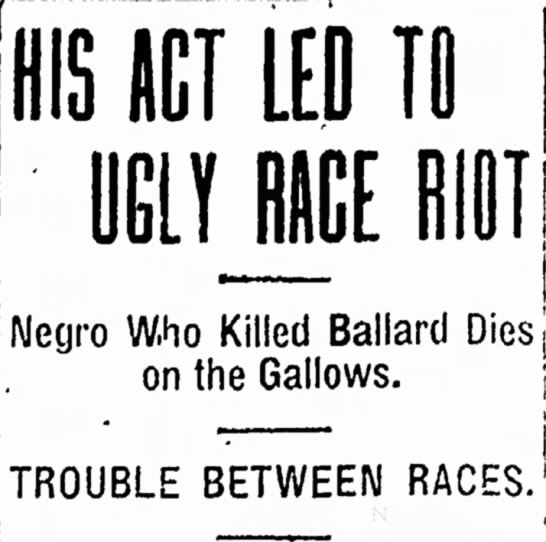 Headline in the Cumberland Evening Times for an article reporting about the Springfield race riot of 1908 (Springfield, Illinois, US).